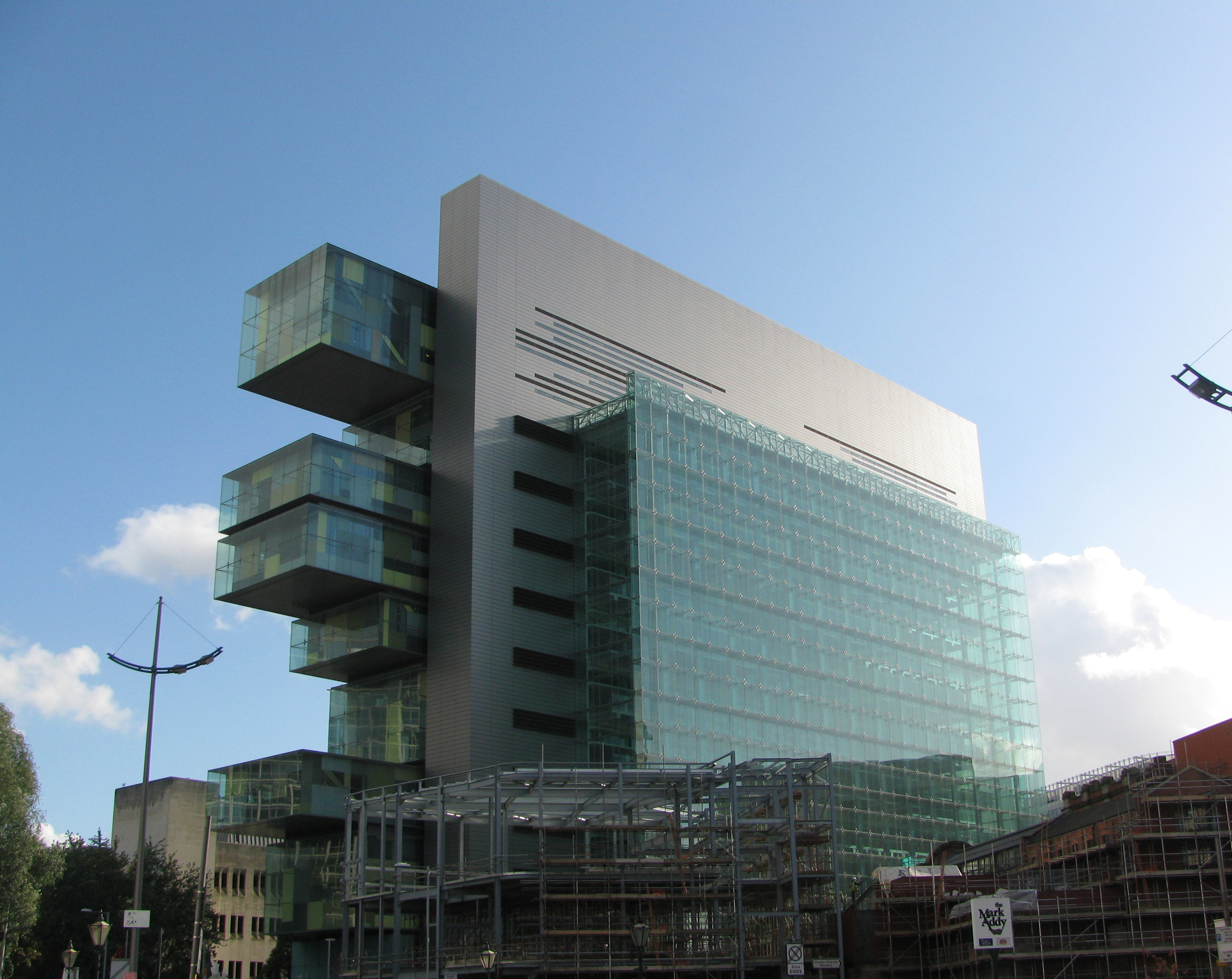 A photograph of the new Manchester Civil Justice Centre from Bridge Street